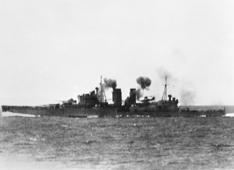 Smoke from anti aircraft fire from the Royal Navy heavy cruiser HMS Exeter (68) in the Java Sea, seen from the Australian cruiser, HMAS Hobart (D63), as Exeter and Hobart engaged attacking Japanese aircraft, 15 February 1942. Exeter survived this attack to be later sunk in the Java Sea on 1 March 1942 by a torpedo from the Japanese destroyer Inazuma. HMS Encounter (H10) and USS Pope (DD-225) were with the Exeter, and all three ships sunk off the southern coast of Borneo.